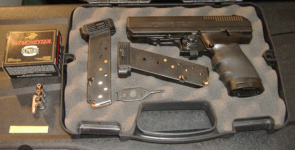 Hi-Point JCP 40 S&W pistol, two magazines, and Winchester SXT hollowpoint ammo.